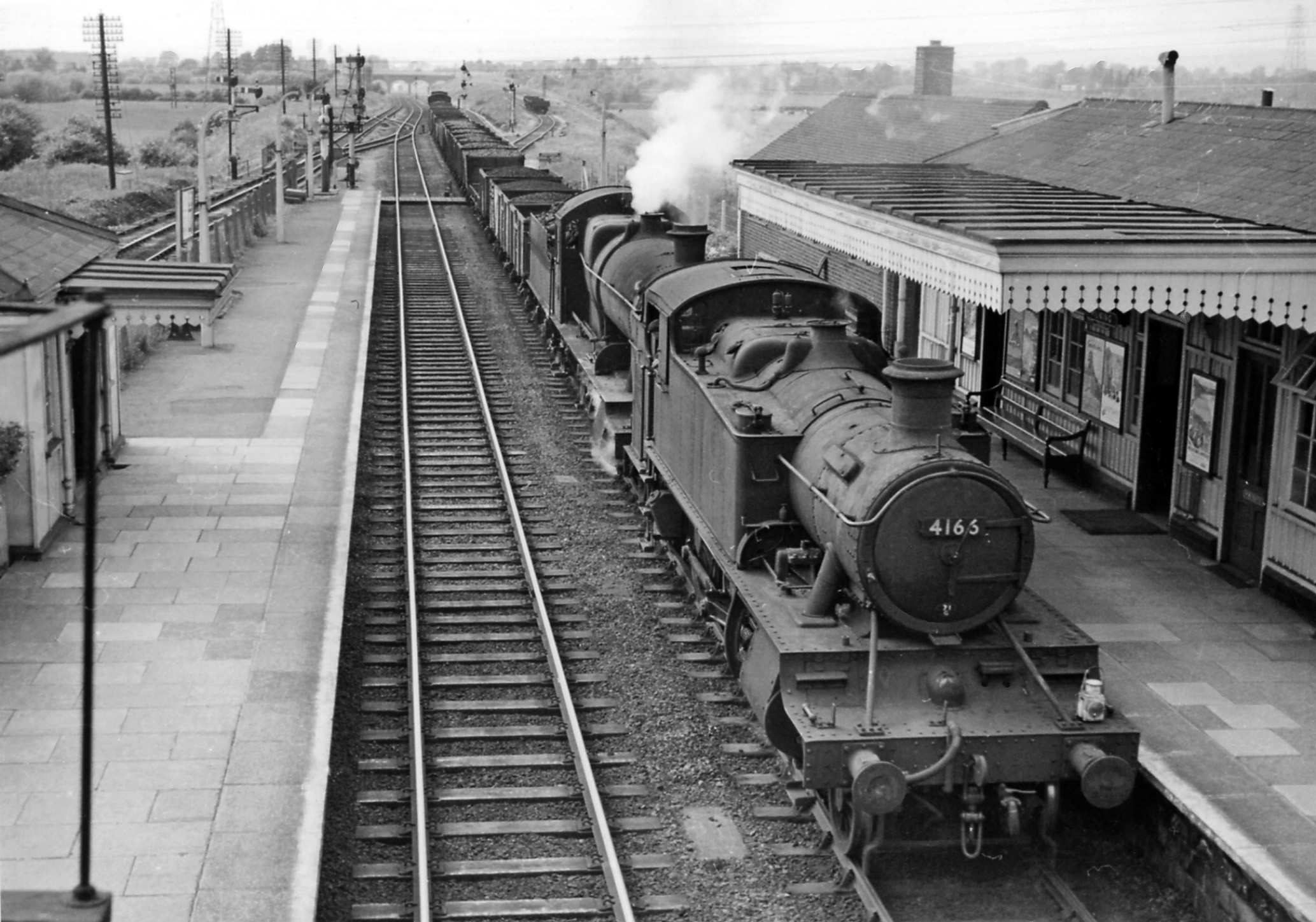 Coal train climbing up from the Severn Tunnel at Pilning (High Level) station. View westward, towards the Severn Tunnel and Junction: ex-GW London/Swindon/Bristol - South Wales main line. '5101' 2-6-2T No. 4165 (built 10/48) is assisting '2884' 2-8-0 No. 3851 (built 6/42) with a heavy coal train up the 3½ miles of 1-in-100 out of the tunnel and has a further similar climb as far as Patchway.